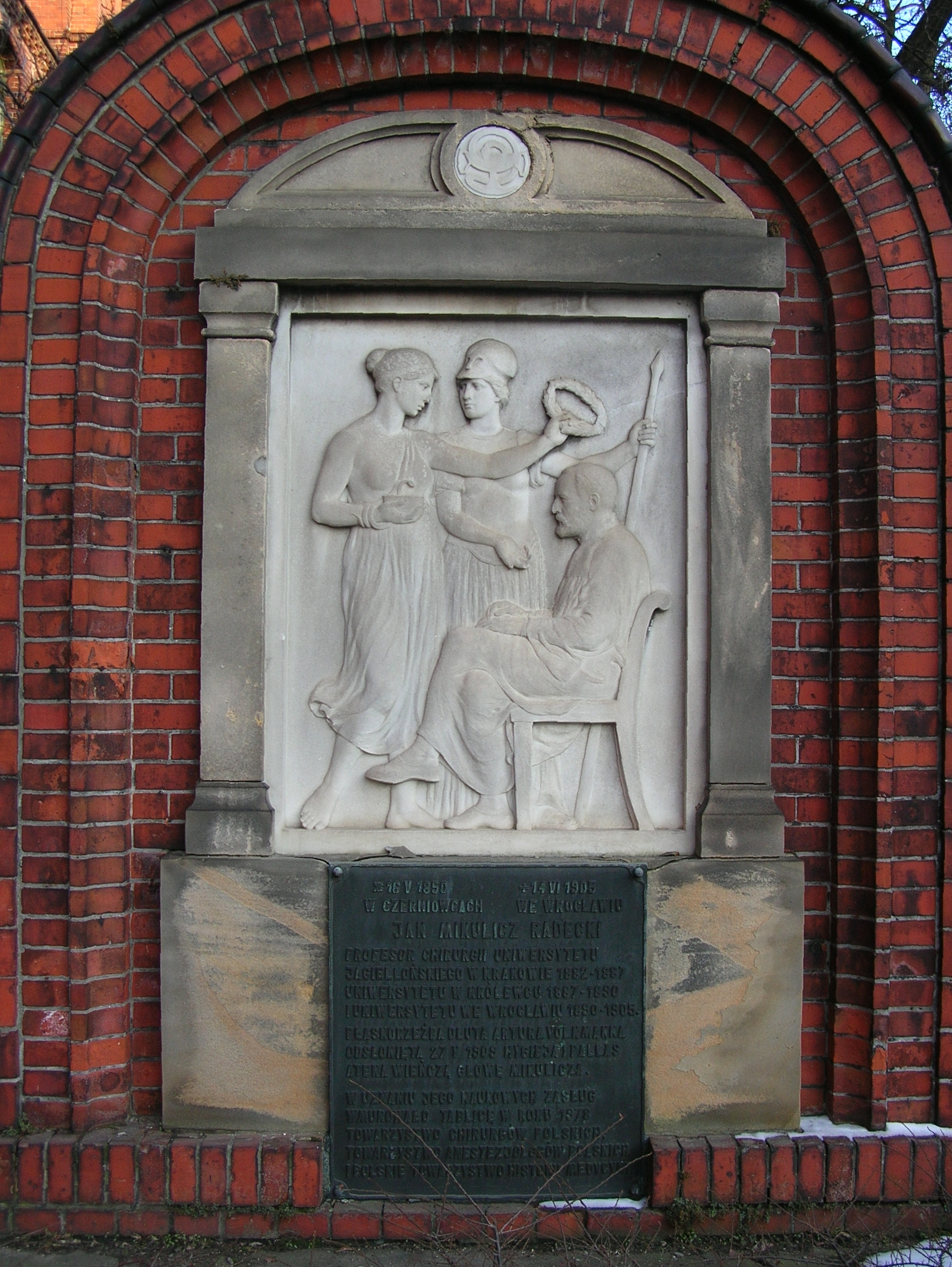 Relief of Mikulicz-Radecki, Wrocław